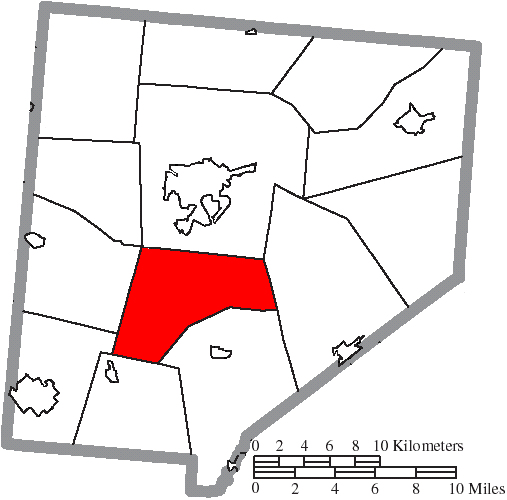 Map of the municipal and township boundaries of Clinton County, Ohio, United States, as of the 2000 census, with the location of Washington Township highlighted. Township borders are shown only in unincorporated areas in order to differentiate incorporated and unincorporated areas more clearly.